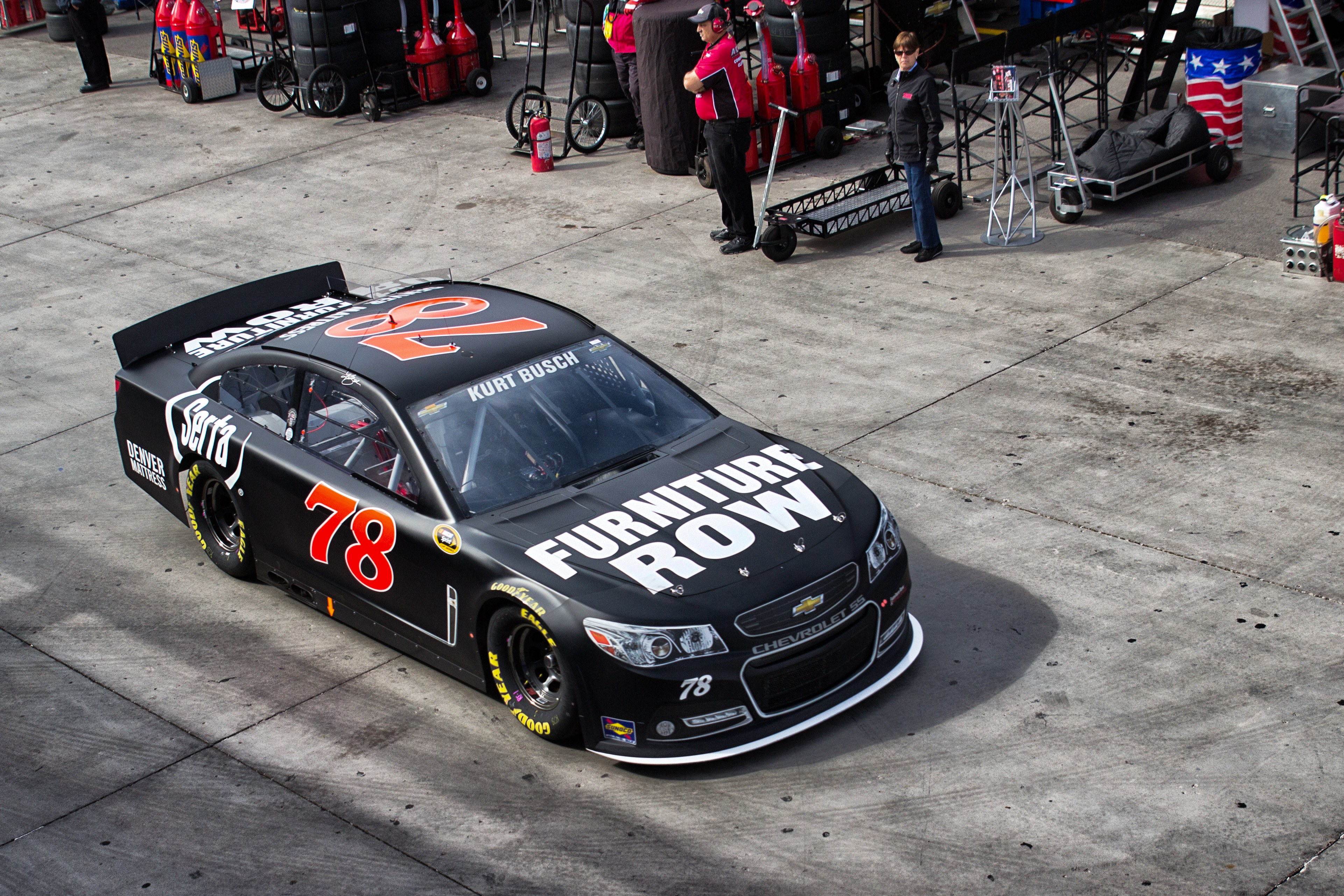 Kurt Busch's No. 78 Furniture Row/Serta Chevrolet at Las Vegas Motor Speedway in 2013